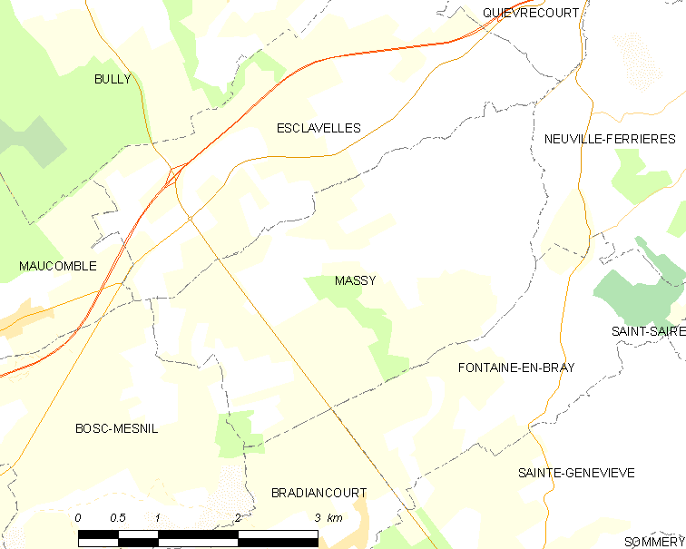 Map of French municipality Massy